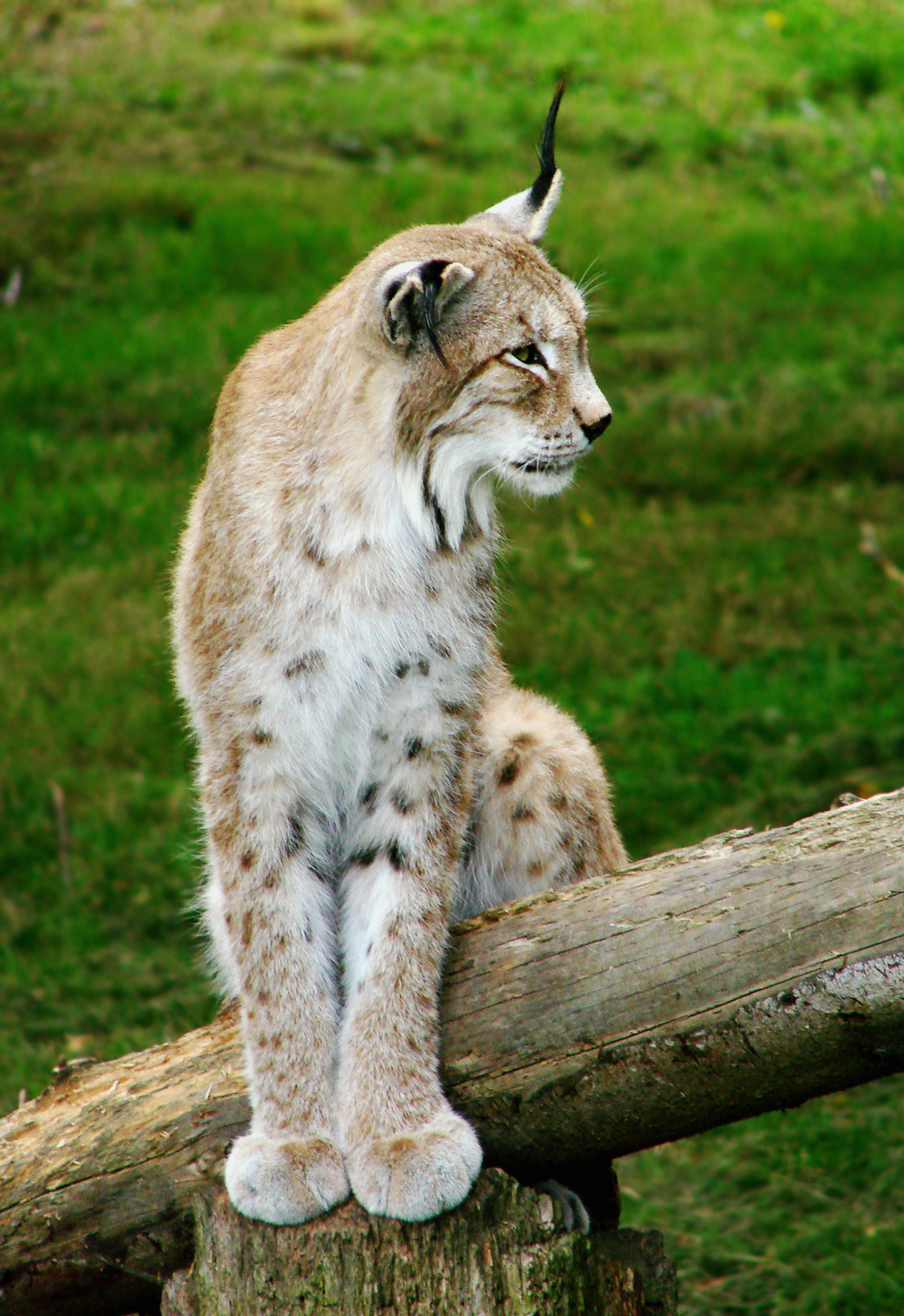 European lynx (Lynx lynx wrangeli). Thoiry Zoo.